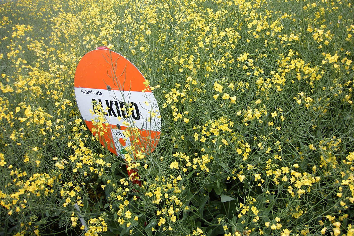 Winterraps (hybride) 'Alkido' (Brassica napus subsp. napus forma napus) of german company KWS.